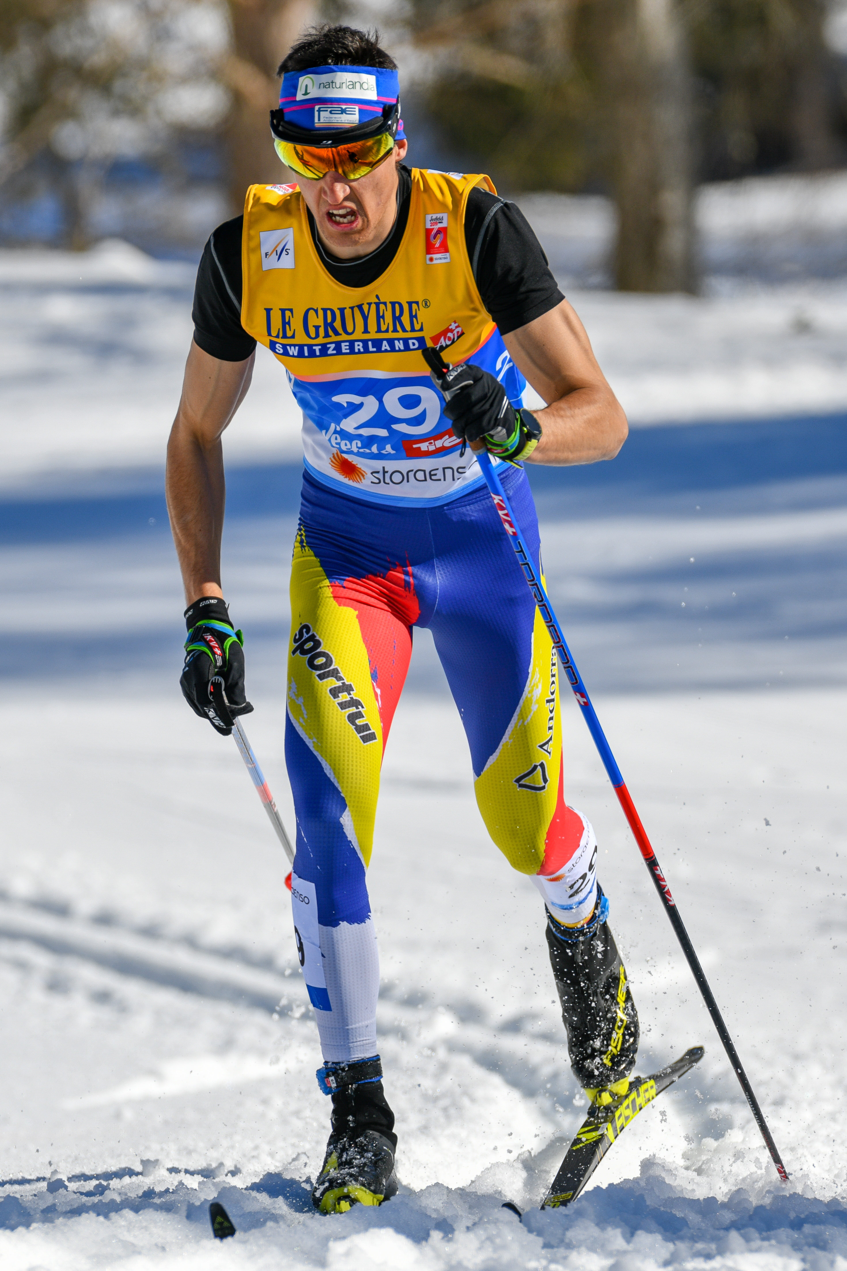 FIS Nordic World Ski Championships Seefeld 2019 - Men 15km Interval Start Classic. Picture shows ALTIMIRAS Esteve (AND).